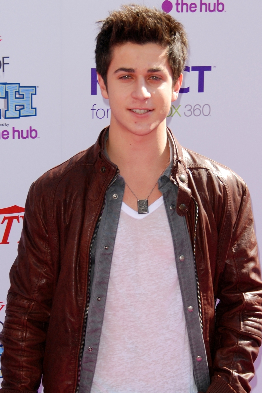 David Henrie attends the Variety's Power of Youth Event at Paramount Studios in Hollywood, CA, Oct 24, 2010